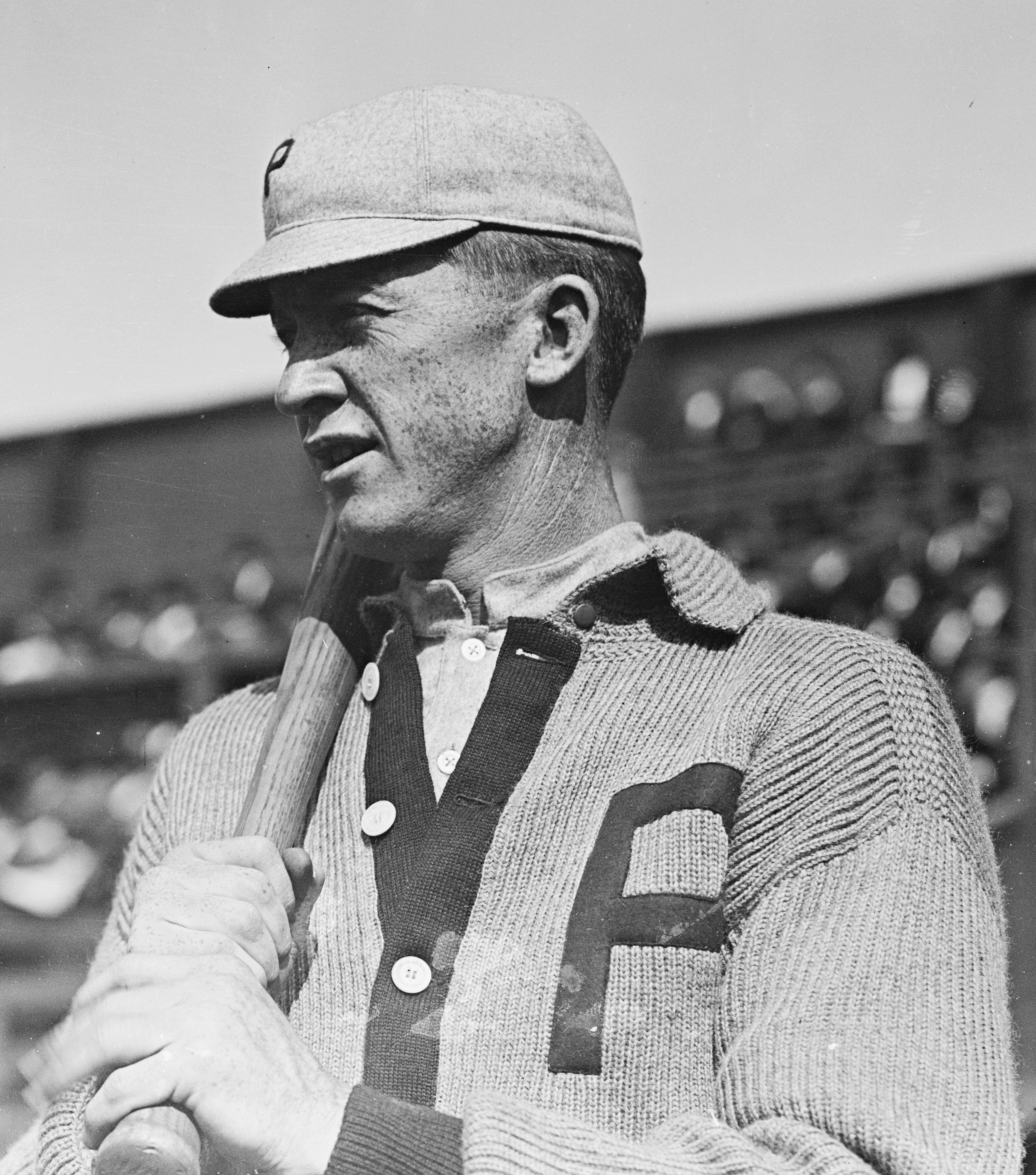 Grover Cleveland Alexander, Philadelphia, NL (baseball) Notes: Original data provided by the Bain News Service on the negatives or caption cards: Alexander, Phila. Corrected title and date based on research by the Pictorial History Committee, Society for American Baseball Research, 2006.